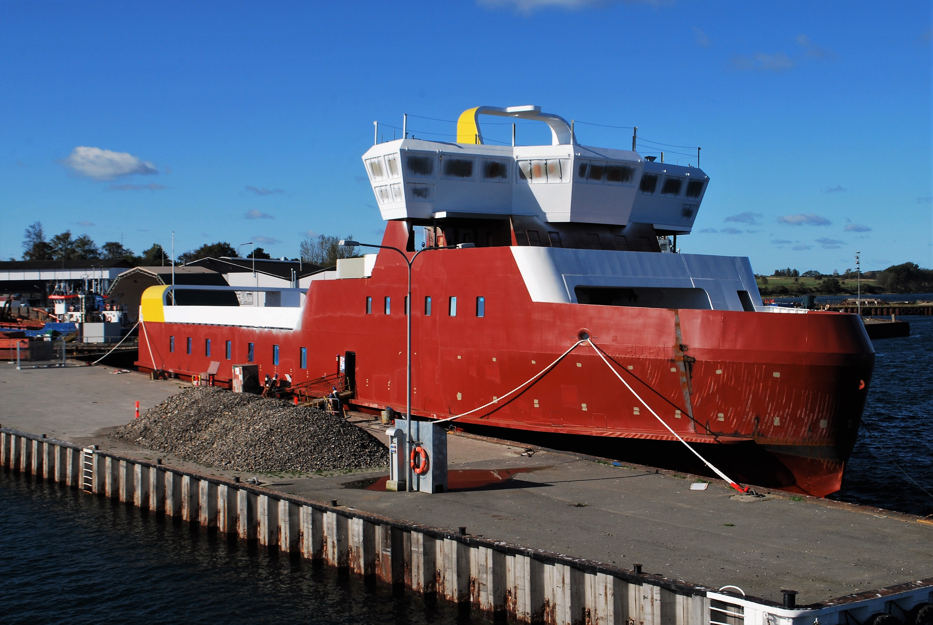 E-ferry: "Ellen" E-ferry Ellen:Prototype and full-scale demonstration of next generation 100% electrically powered ferry for passengers and vehicles